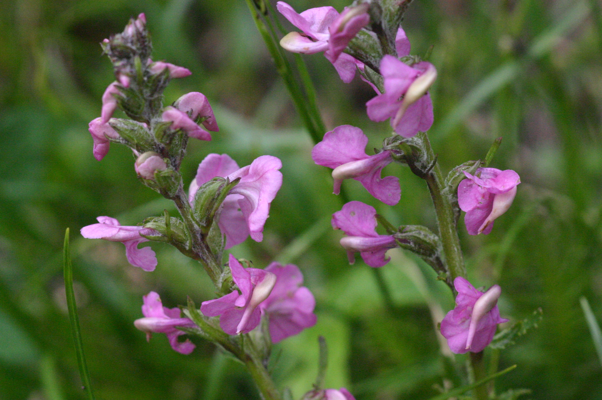 Pedicularis rostratospicata ssp. rostratospicata